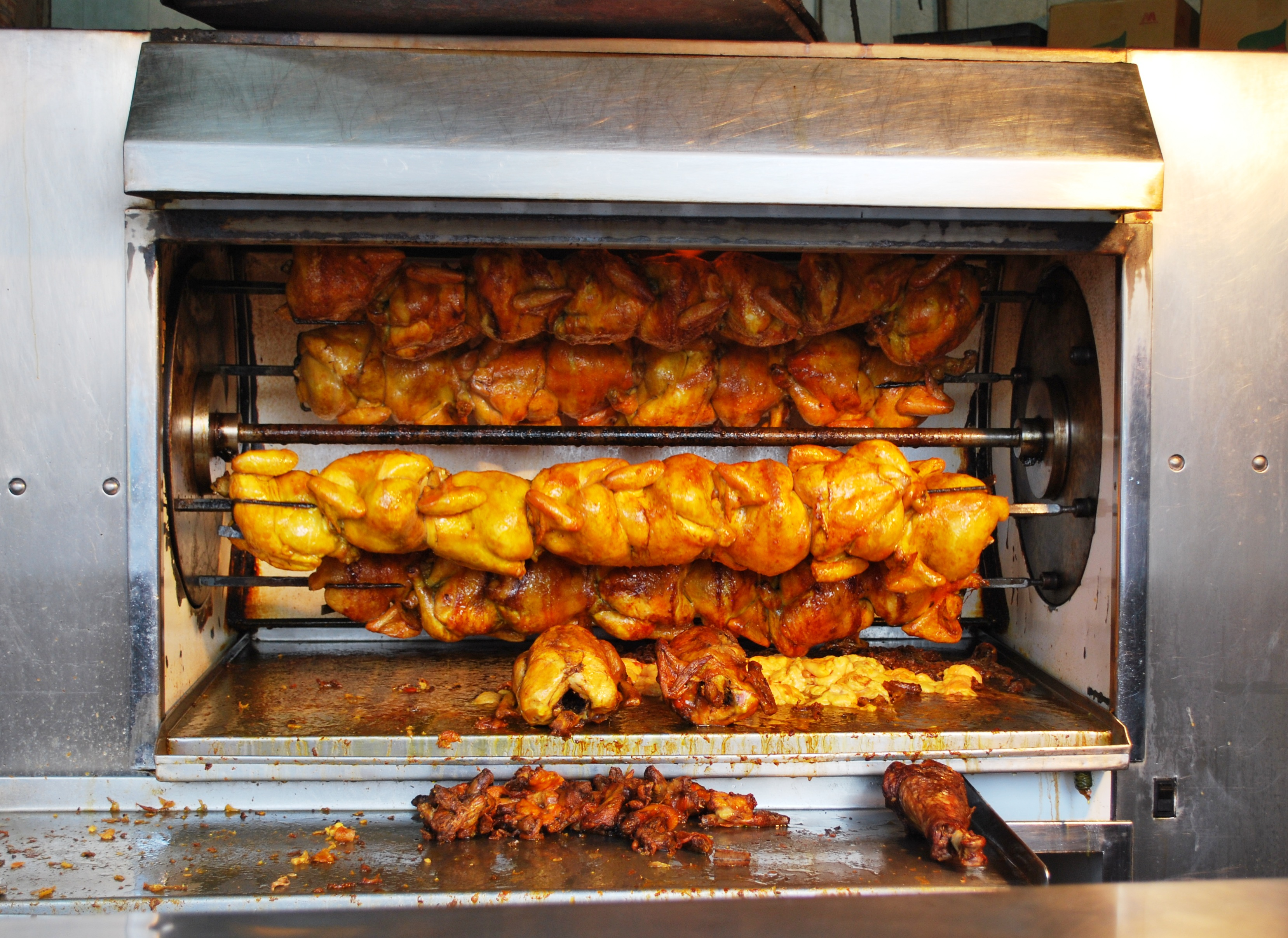 Rotisserie Chicken (pollo rostizado in Mexico) cooking at a take-out shop in the Obrera neighborhood of Mexico City. This is usually served with tortillas or bread, chili sauce, avocados and tomatoes.